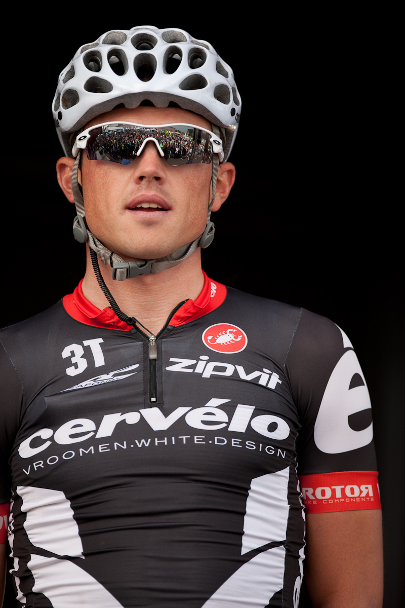 Simon Gerrans, Eschborn-Frankfurt City Loop 2009